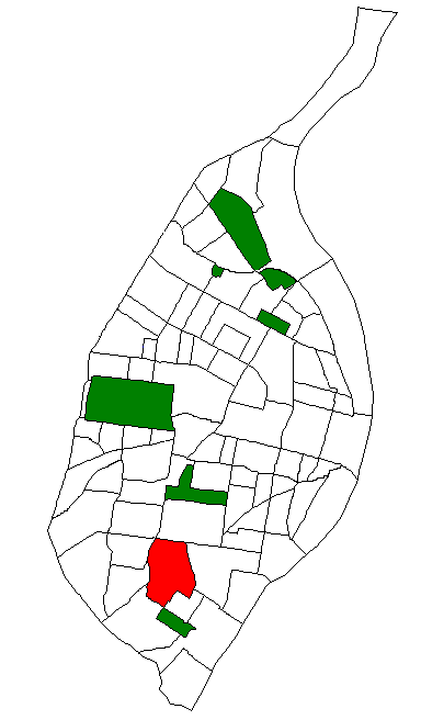 Map of St. Louis neighborhood #05